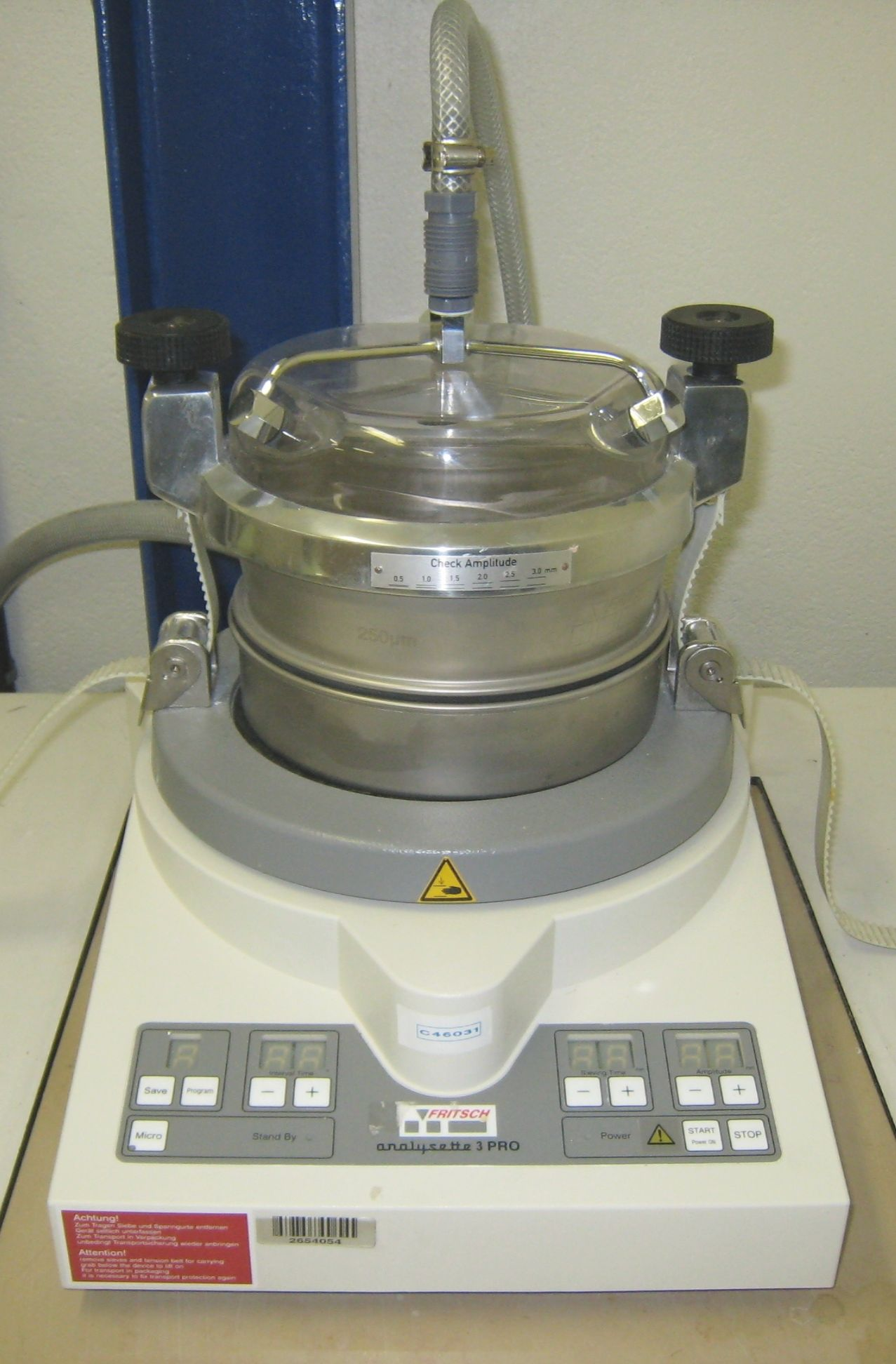 A laboratory vibrating sieve for the measurement of particle size distribution. It can analyze solid samples or suspensions. Measuring range in wet sieving of this model: 20 µm (635 mesh) to 10 mm.